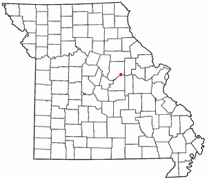 Modified from a map on Wikipedia.